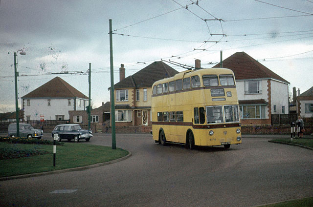 Iford roundabout This was the junction of the trolleybus routes from Iford into Bournemouth. Service 32 was the long way round, via Castle Lane and Charminster Road.